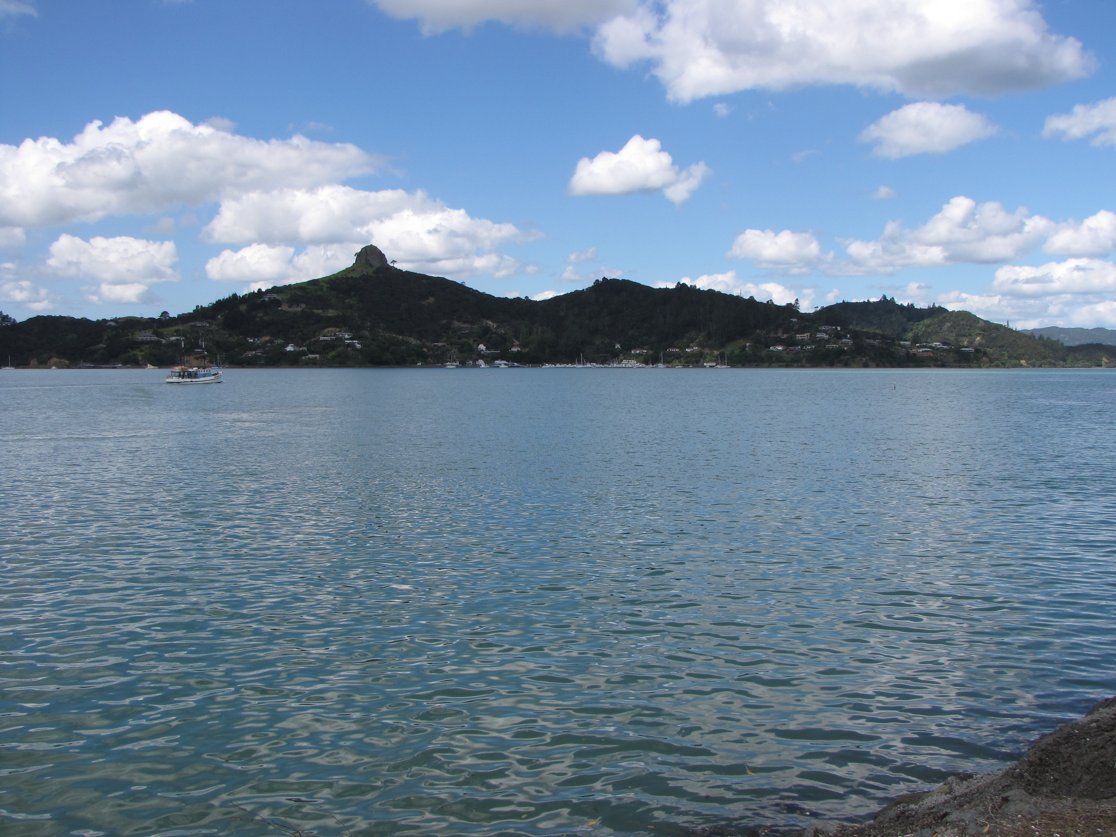 Whangaroa Harbour, Northland, New Zealand. The volcanic plug of St Paul rises over the settlement of Whangaroa.